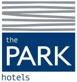 दि पार्क चेन्नई